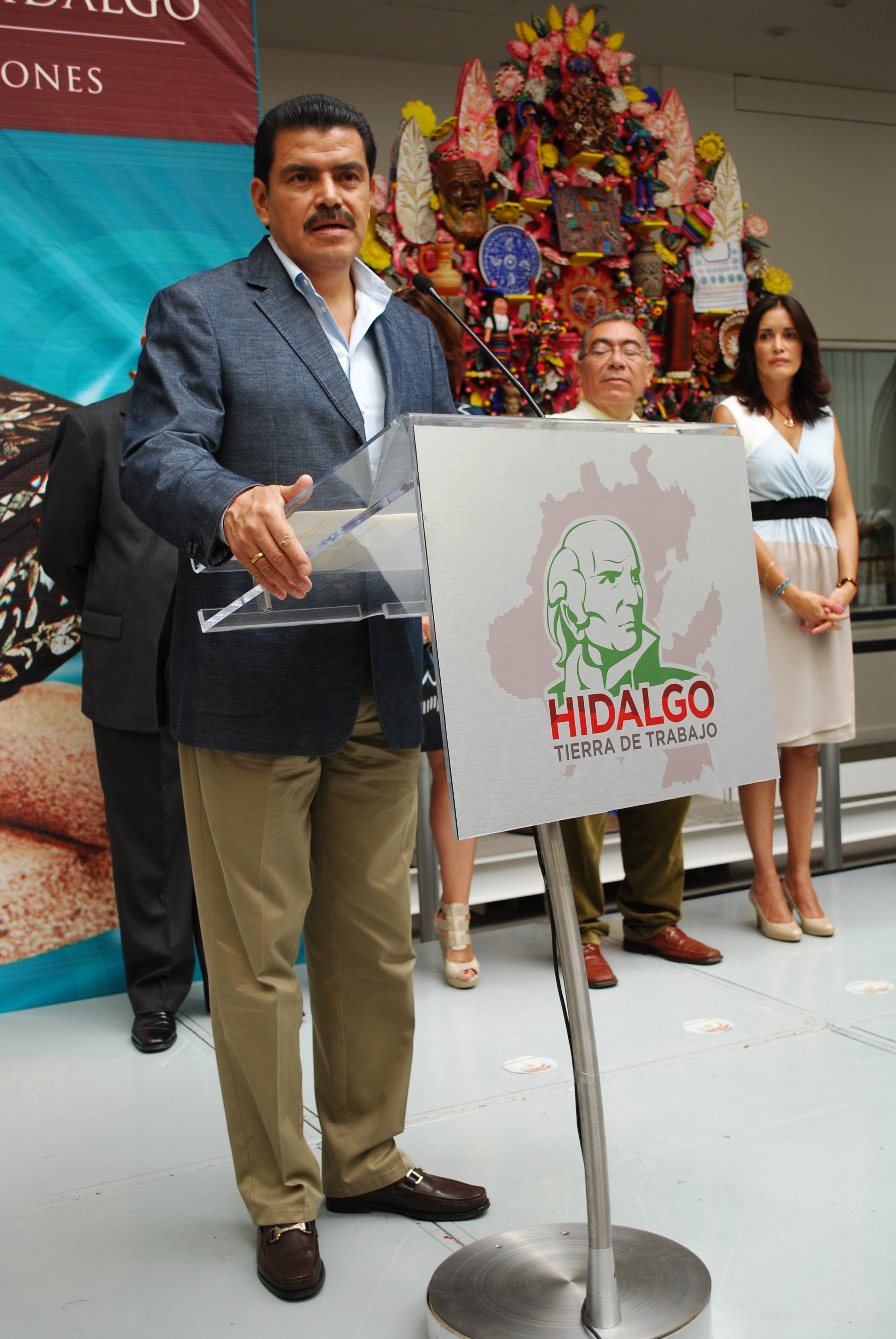 Governor of Hidalgo José Francisco Olvera Ruiz speaking at the opening of an exhibition of handcrafts from the state at the Museo de Artes Populares in Mexico City